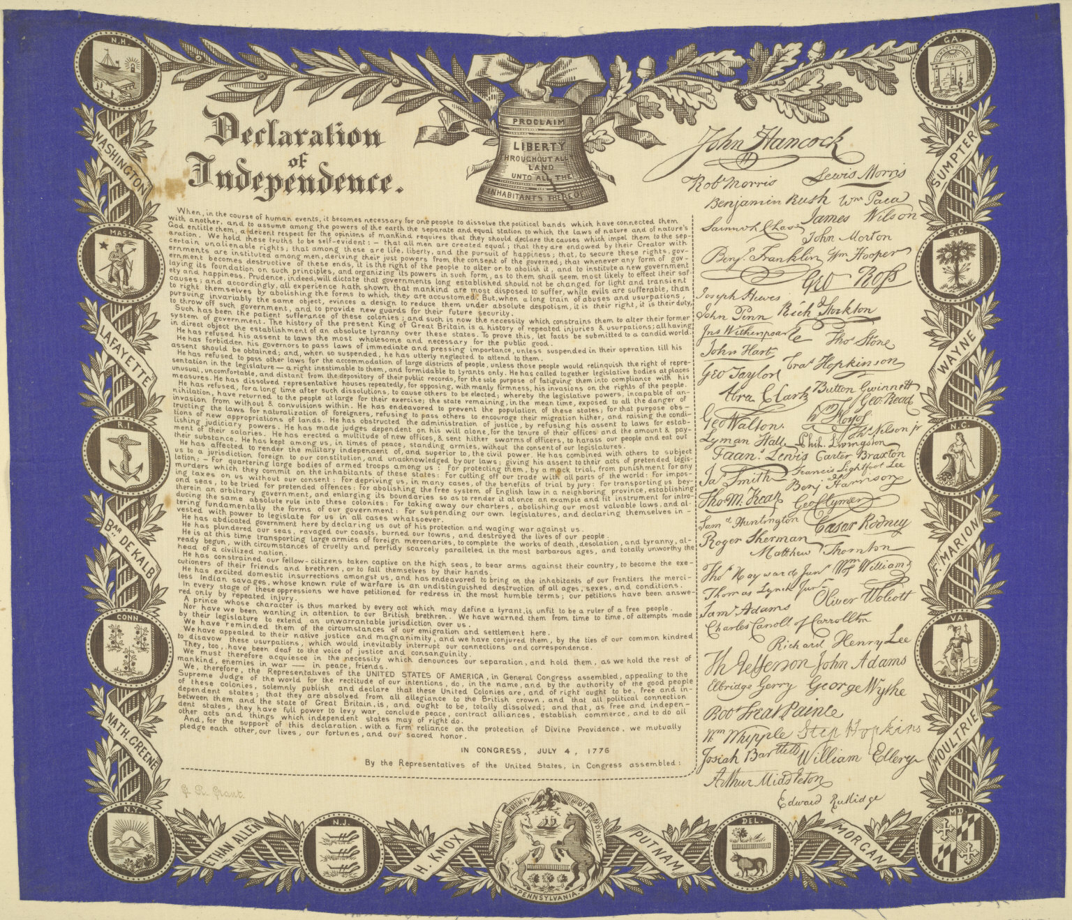 Collection: Cornell University Collection of Political Americana, Cornell University Library Repository: Susan H. Douglas Political Americana Collection, #2214 Rare & Manuscript Collections, Cornell University Library, Cornell University Title: Declaration of Independence, ca. 1876 Political Party: Democratic-Republican Date Made: ca. 1876 Measurement: Towel: 20.75 x 24 in.; 52.705 x 60.96 cm Classification: Textiles Persistent URI: There are no known U.S. copyright restrictions on this image. The digital file is owned by the Cornell University Library which is making it freely available with the request that, when possible, the Library be credited as its source.